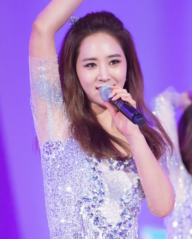 SNSD Yuri at Style Icon Asia Award on March 15, 2016